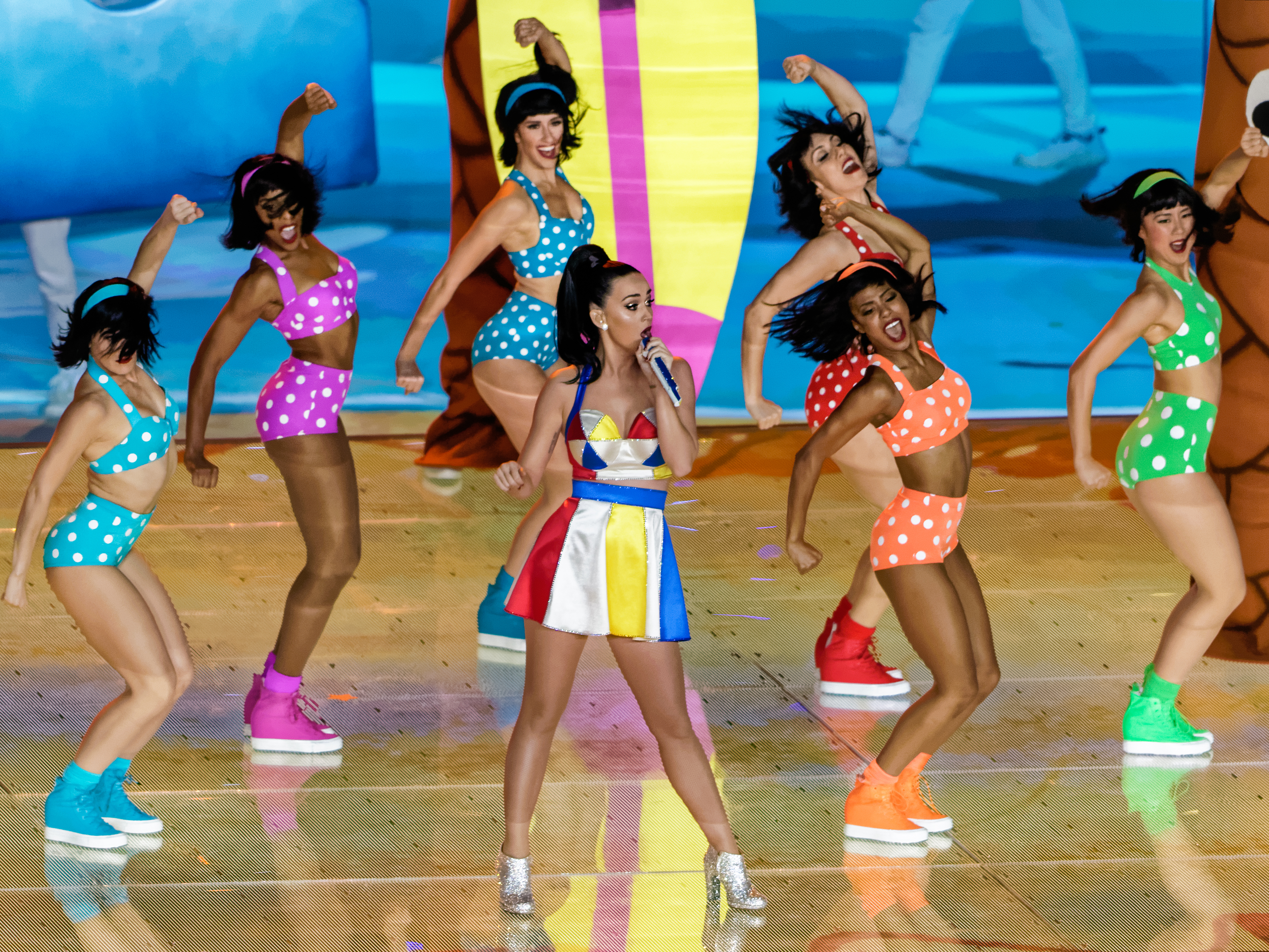 Katy Perry performing "California Gurls" at halftime of Super Bowl XLIX at University of Phoenix Stadium in Glendale, Ariz., on Feb. 1, 2015.